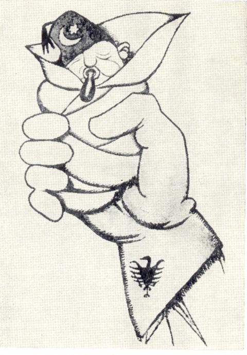 In the German Cradle by Viktor Deni